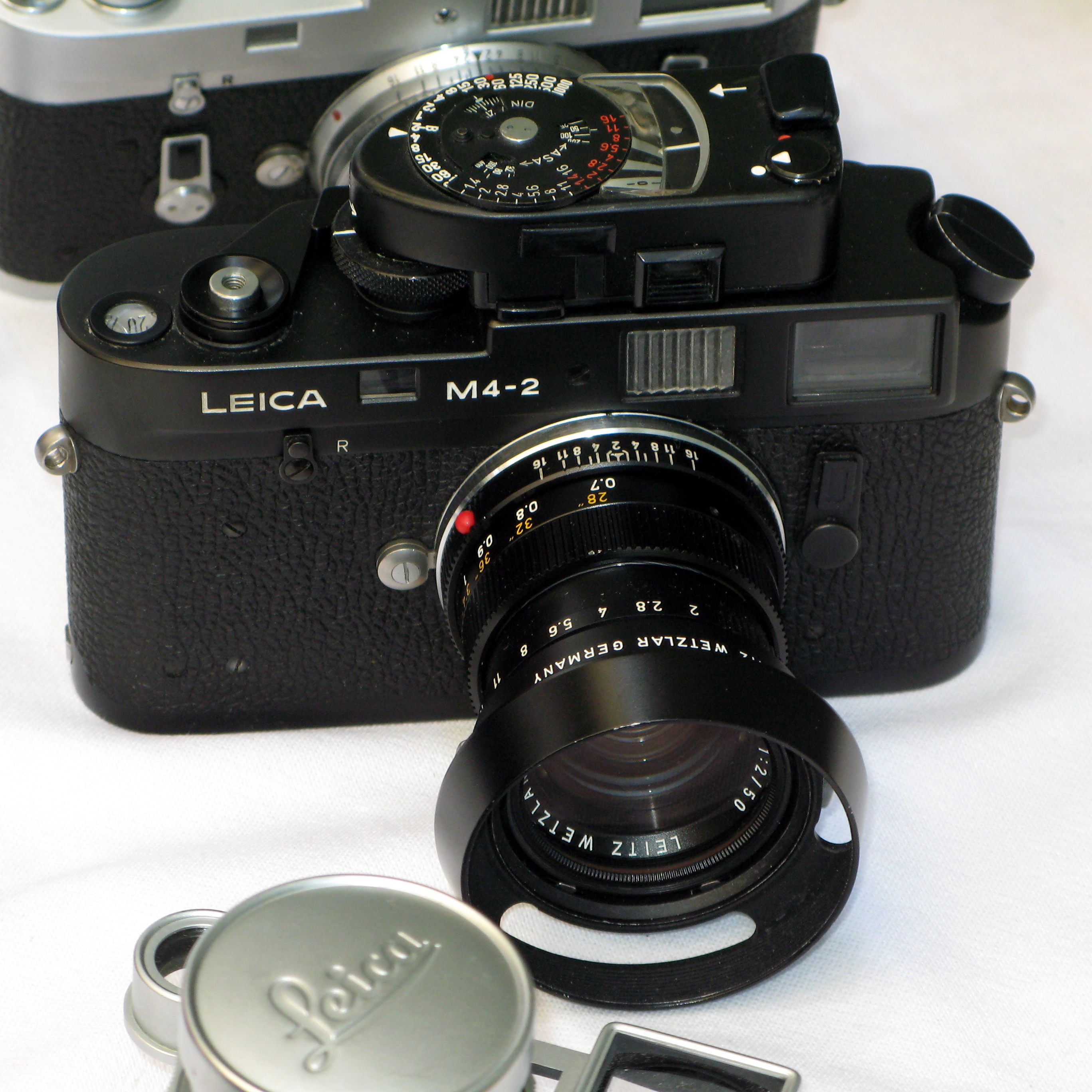 Leica M4-2